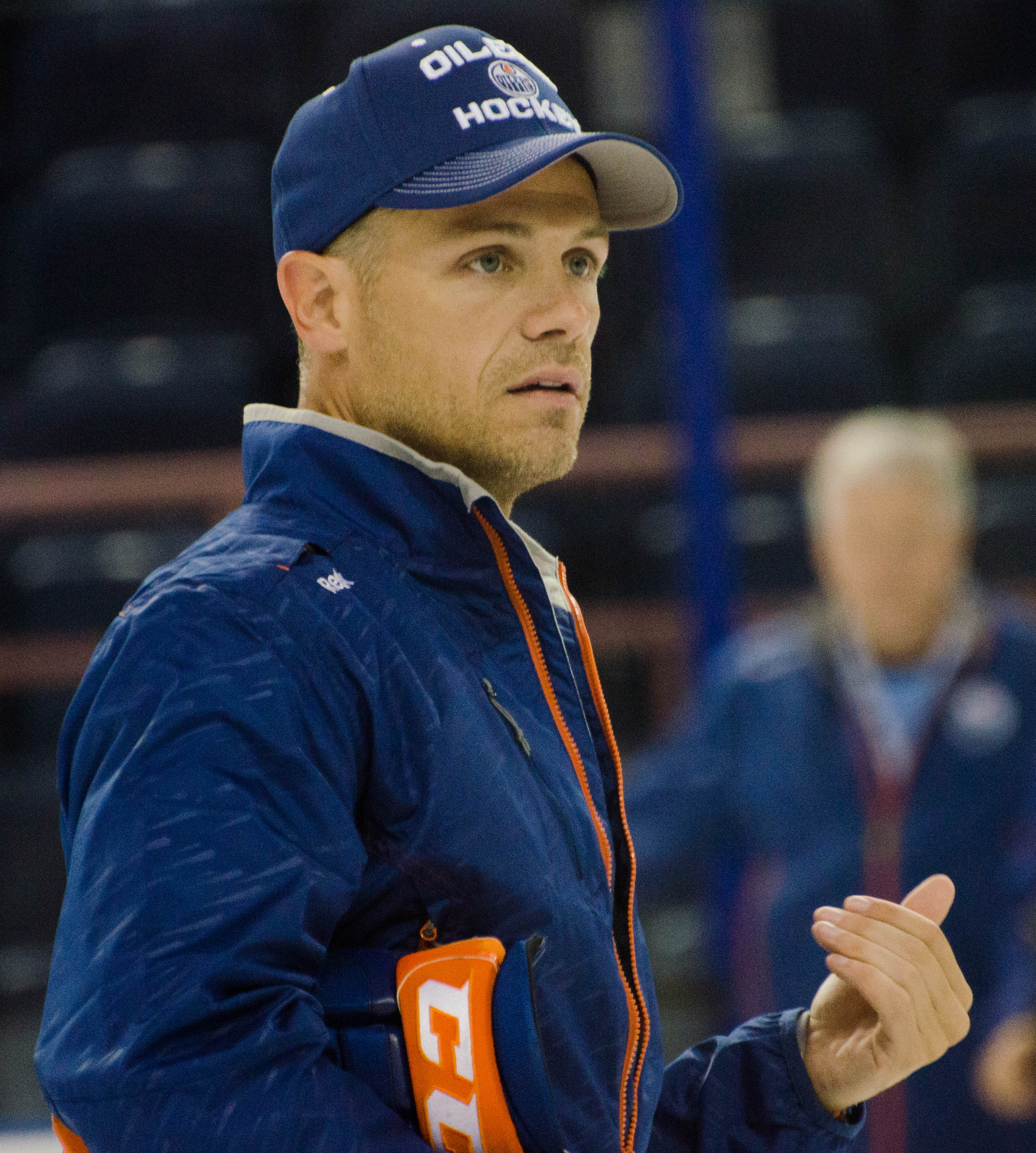 David Pelletier at the 2015 Edmonton Oilers Development Camp, July 4, 2015.